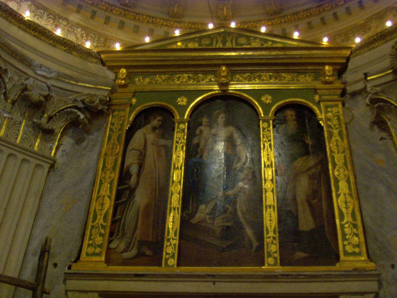 Trittico della prima metà del XVI secolo, chiesa del Santissimo Nome di Maria, Ziona, raffigurante la Madonna con il Bambino Gesù e i Santi Giovannino, Andrea e Lorenzo.